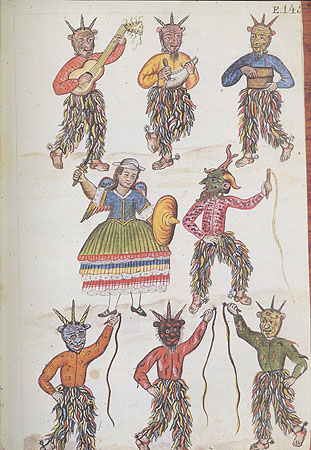 Image 145 from work Trujillo del Perú. Vol. II. Drawing ordered by the bishop of Trujillo of the Viceroyalty of Peru, Baltasar Martínez Compañón, that shows the Danza de los Diablicos; with Saint Michael and seven demons.